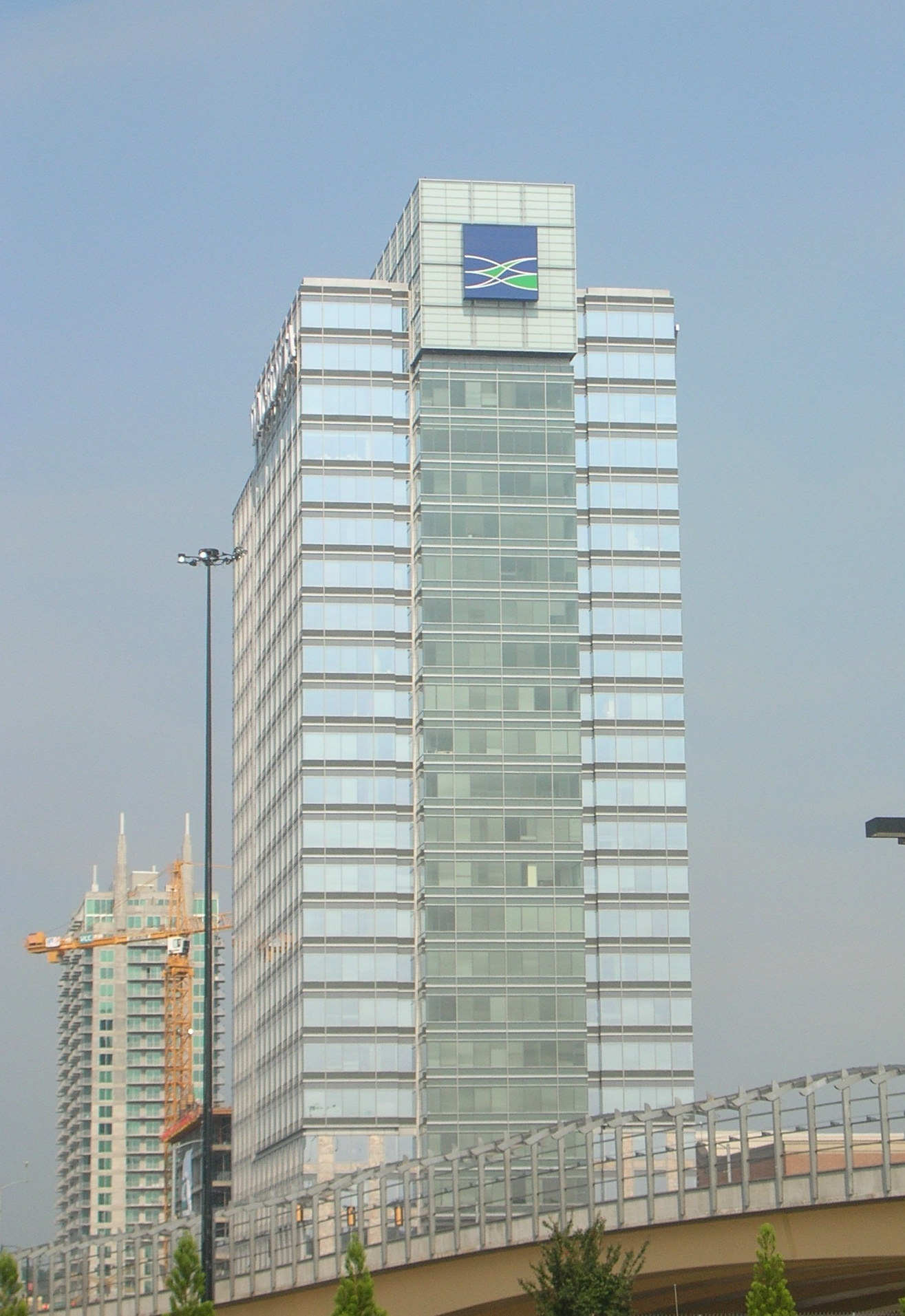 Wachovia Building - Atlantic Station - ATL